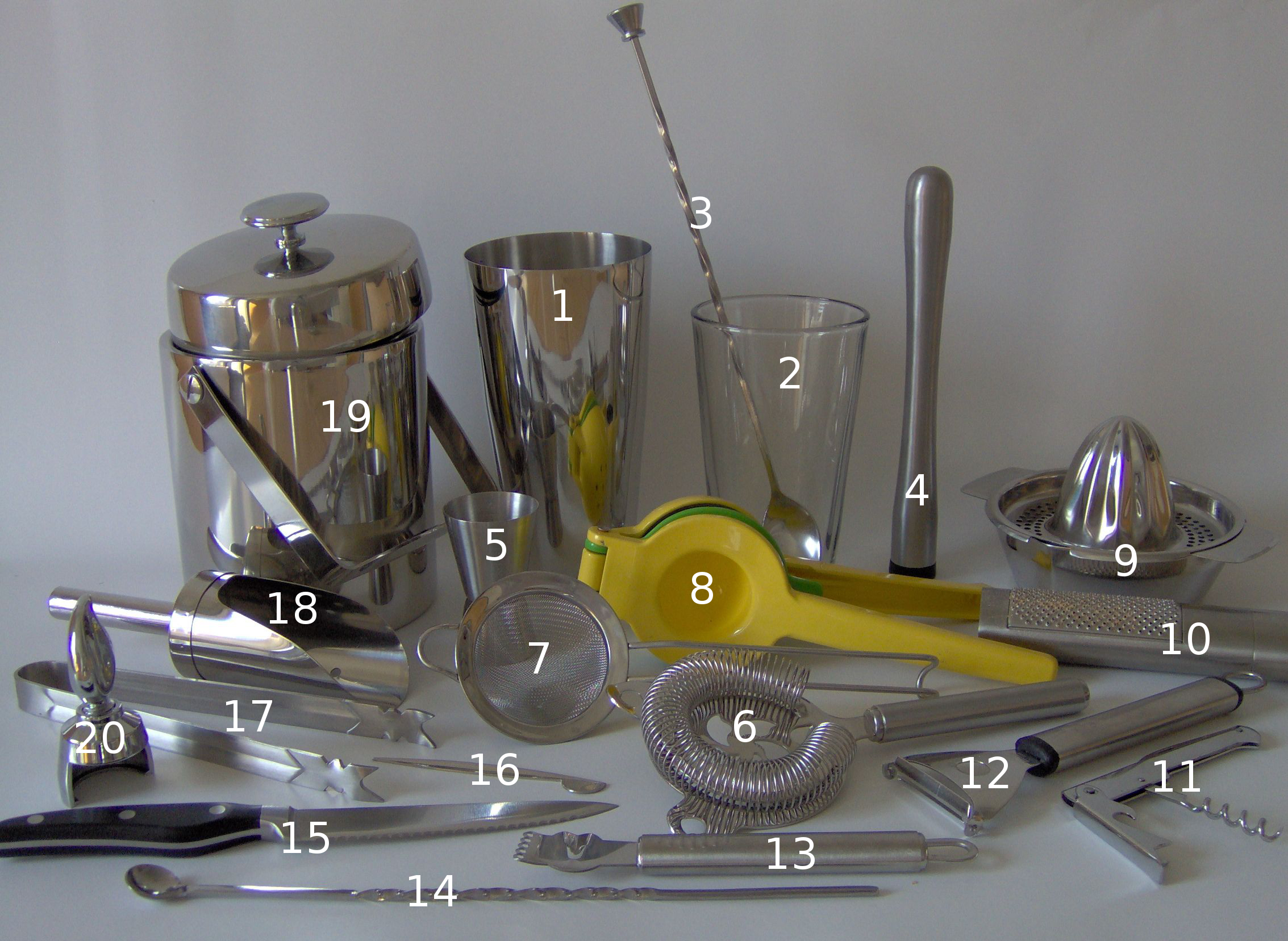 Some bartools: (1) boston shaker (metal bottom), (2) boston shaker (mixing glass), (3) bar spoon, (4) muddler, (5) jigger, (6) strainer, (7) tea strainer, (8) lime squeezer, (9) lemon squeezer, (10) nutmeg grater, (11) corkscrew (sommerlier knife), (12) Y-peeler, (13) zester, (14) small bar spoon, (15) kitchen knife, (16) cocktail-pick, (17) ice tongs, (18) ice scoop, (19) ice bucket, (20) champagne bottle stopper.